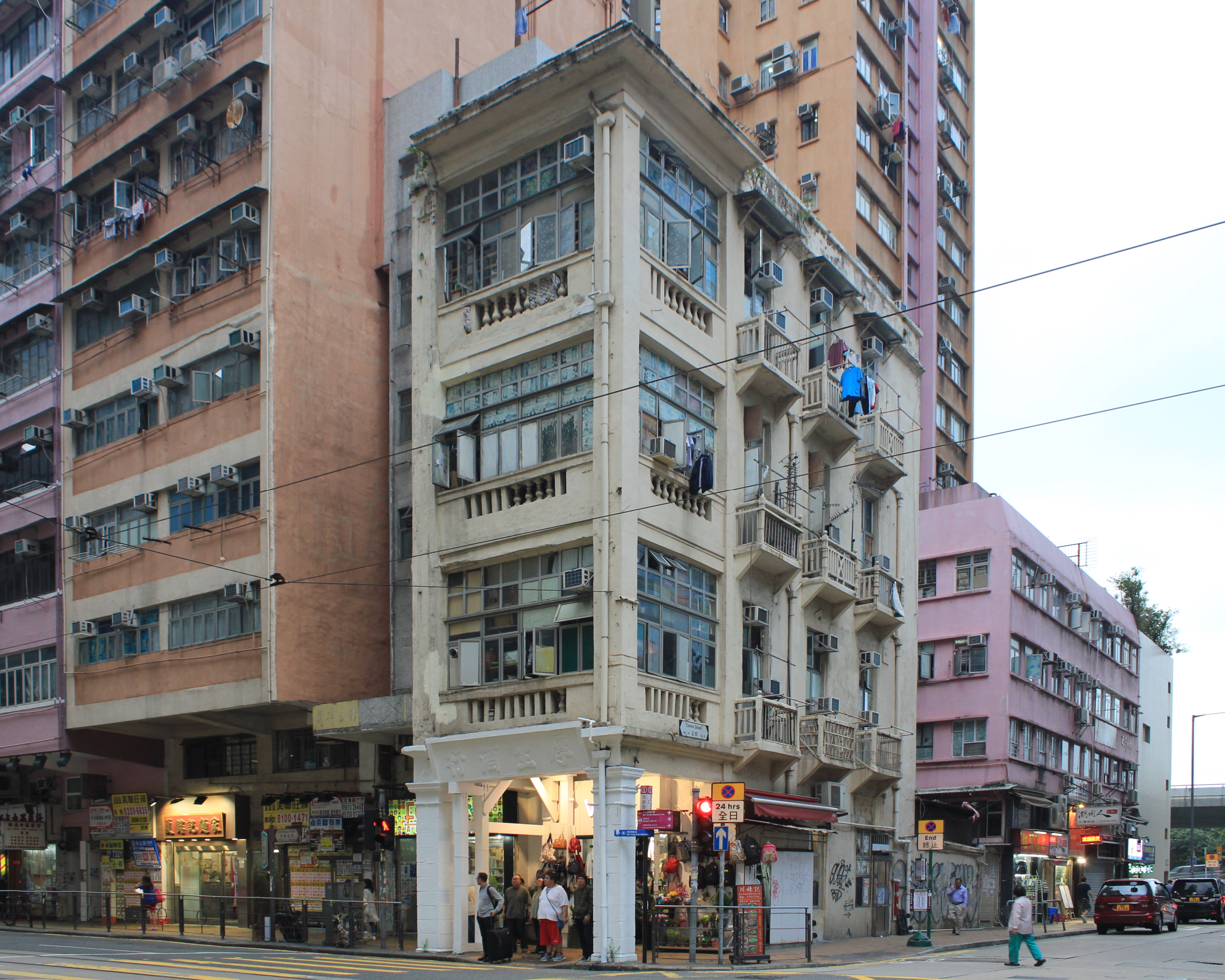 207 Des Voeux Road West is a pre-war tong lau in Hong Kong, which is now listed as a Grade II Historic Building.